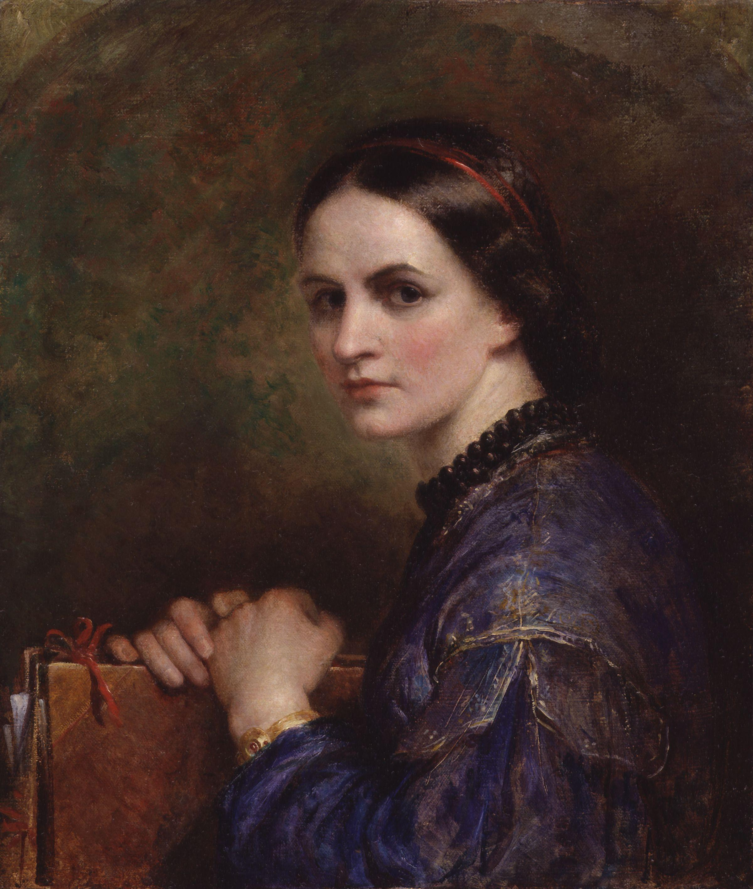 Ann Mary Newton (née Severn), by Ann Mary Newton (née Severn) (died 1866). All images in this batch have been confirmed as author died before 1939 according to the official death date listed by the NPG.